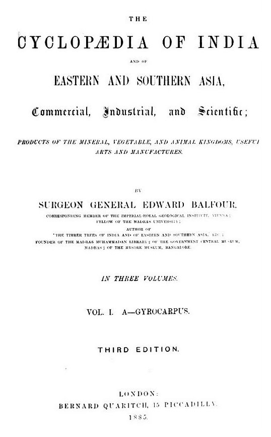 Cover of Edward Balfour's Cyclopaedia of India, 3rd edition, 1885